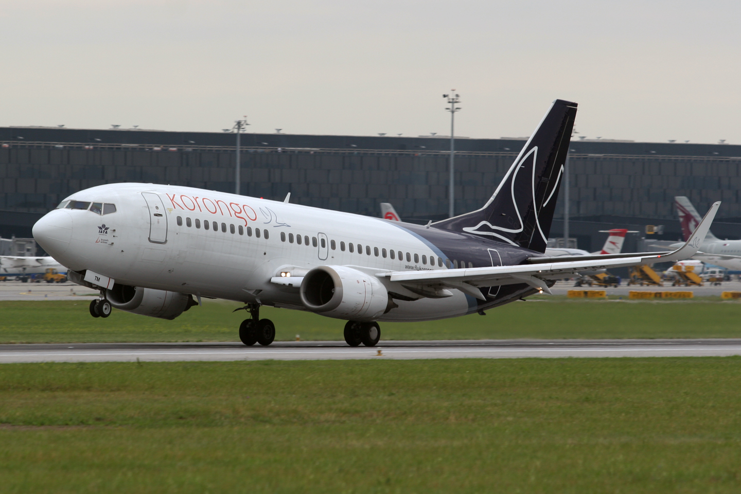 Still owned by Brussels Airlines Korongo Airlines sole Boeing 737-300 departs runway 29 at Vienna International airport. On that flight it operated the regular morning flight to Brussels.